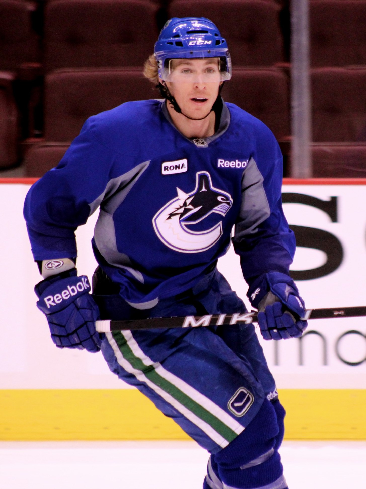 Vancouver Canucks forward David Booth during a practice on March 9, 2012.